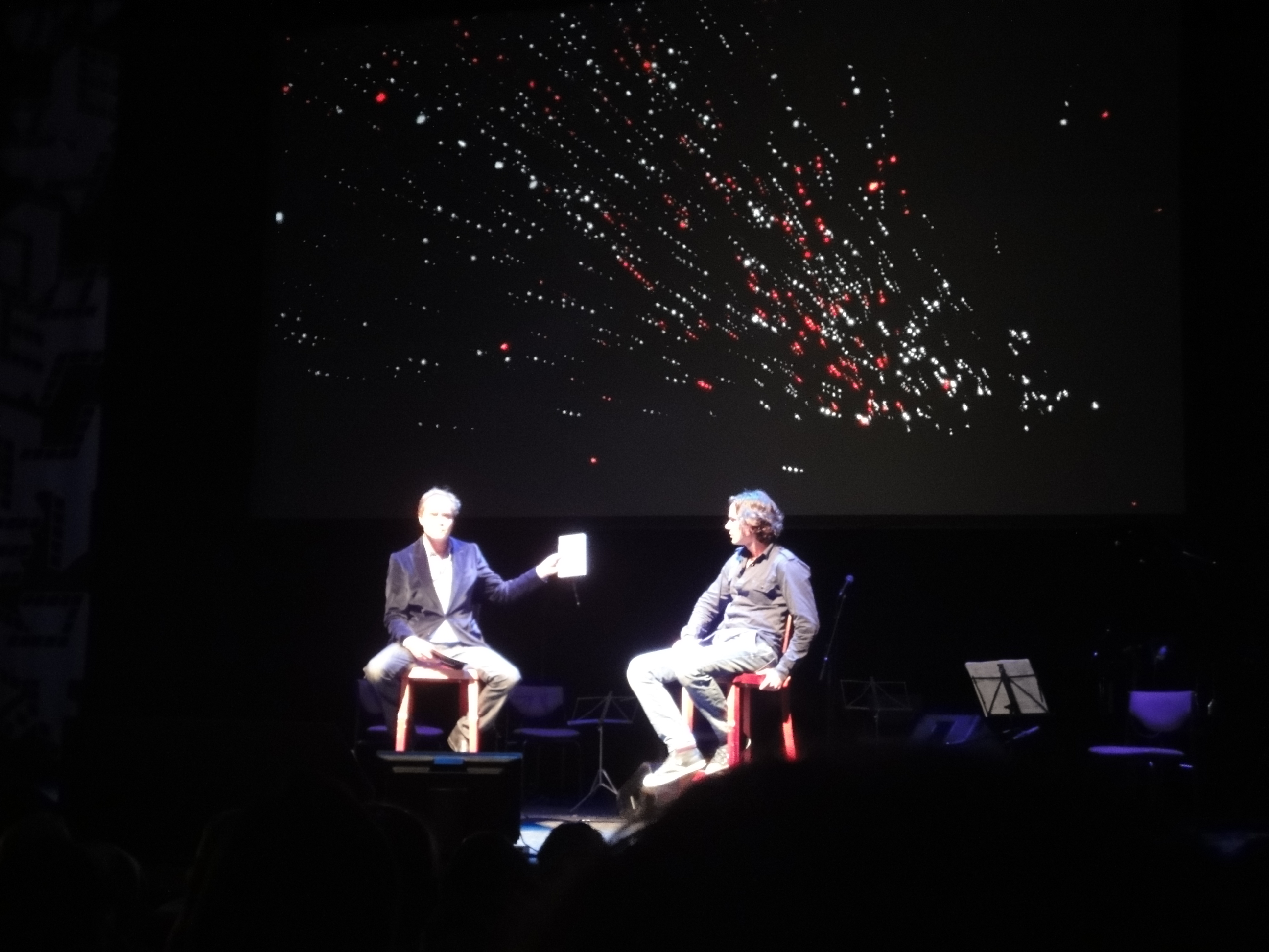 Steven van der Hoeven talks about his book in which he describes how the sexual abuse he suffered as a child changed his life.